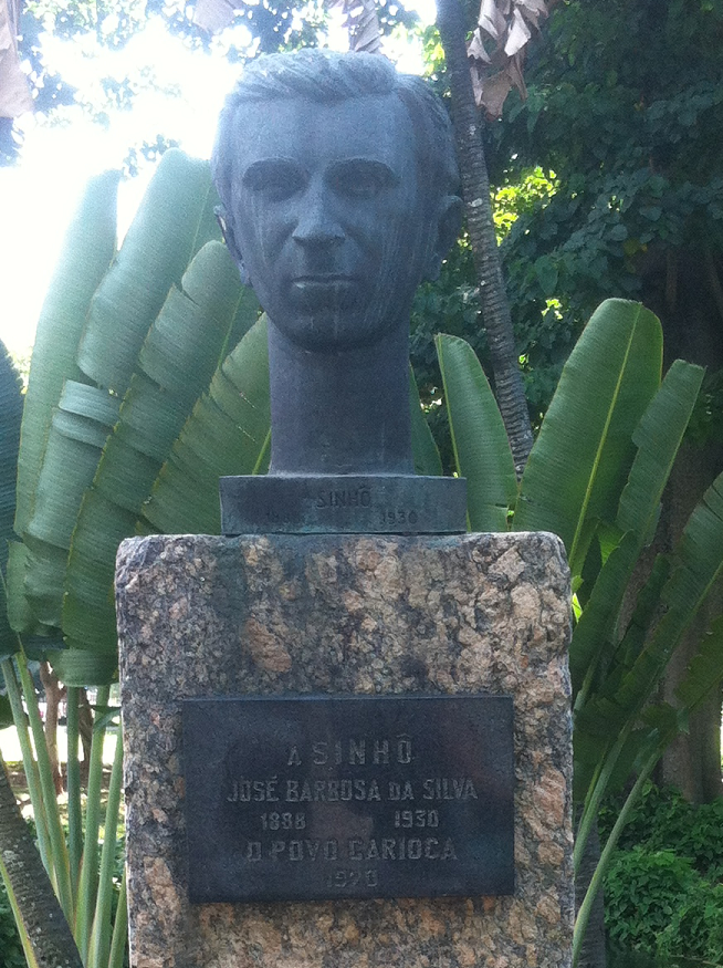 Sinhô's representative image at Campo de Santana, Rio de Janeiro, Brasil.